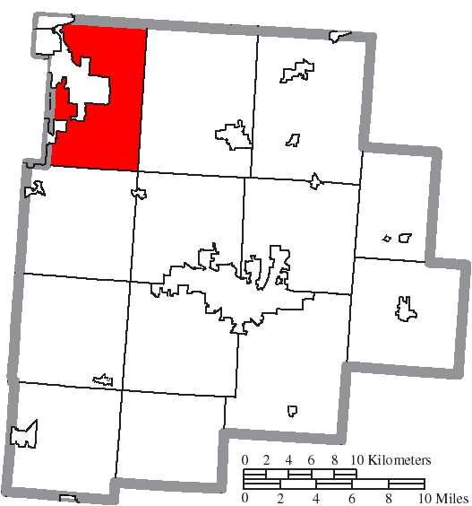 Map of the municipal and township boundaries of Fairfield County, Ohio, United States, as of the 2000 census, with the location of Violet Township highlighted. Township borders are shown only in unincorporated areas in order to differentiate incorporated and unincorporated areas more clearly.